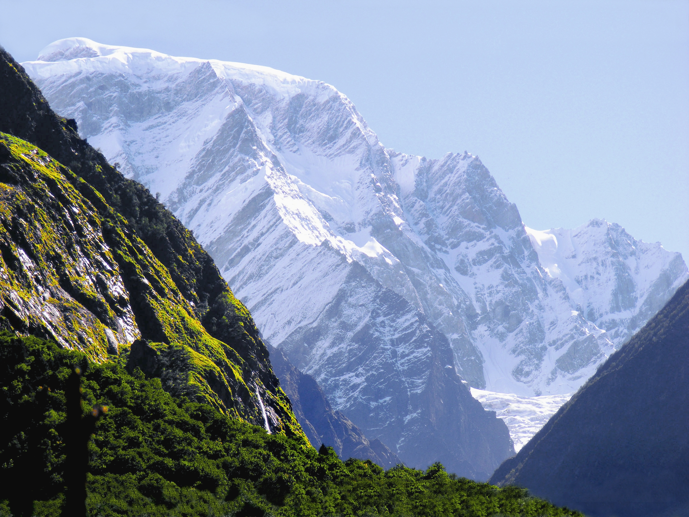 View of Haathi Parvat (Elephant Peak) From the village near Ghangaria in Uttarakhand state, India.